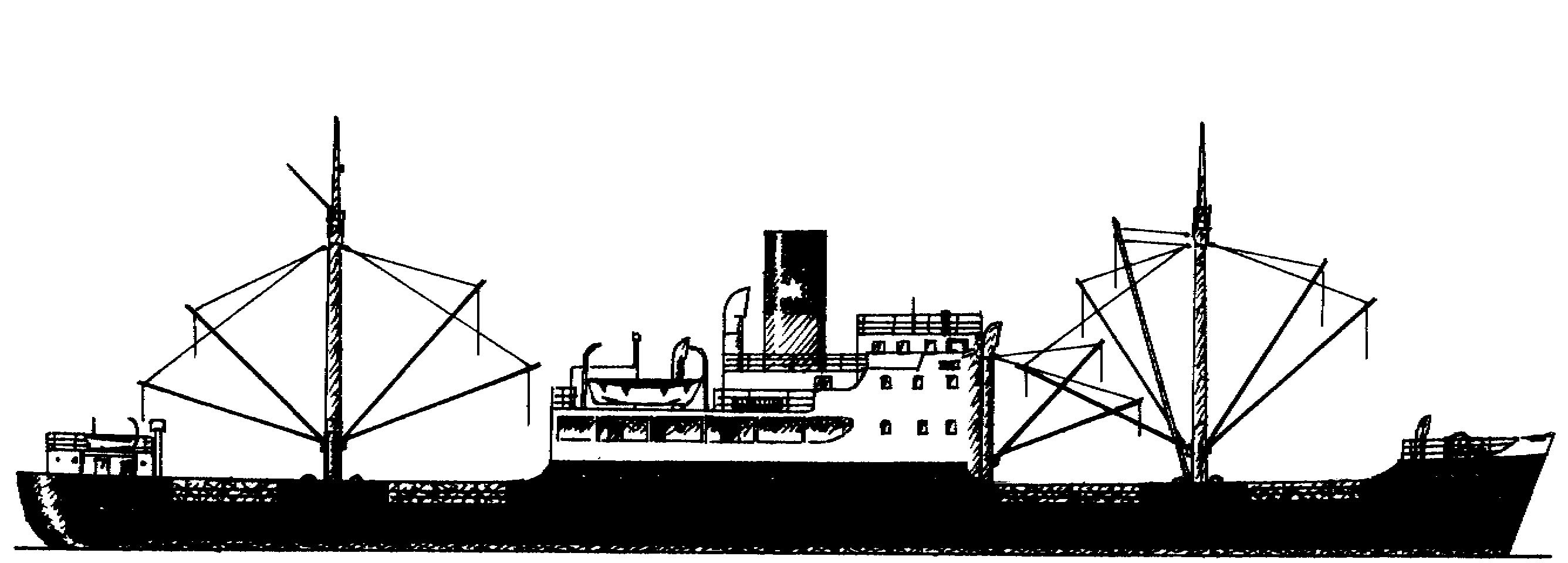 Steamer HABICHT (1938), a combined passenger & cargo liner in the England service of Argo Reederei Richard Adler & Co.